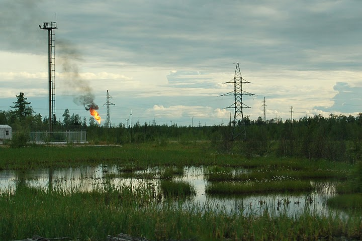 Typical landscape of Khantia-Mansia, near Nizhnevartovsk, own work.